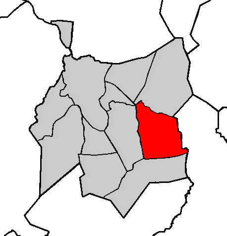 Location of the parish of Bribes in the municipality of Cambre (Galicia, Spain)